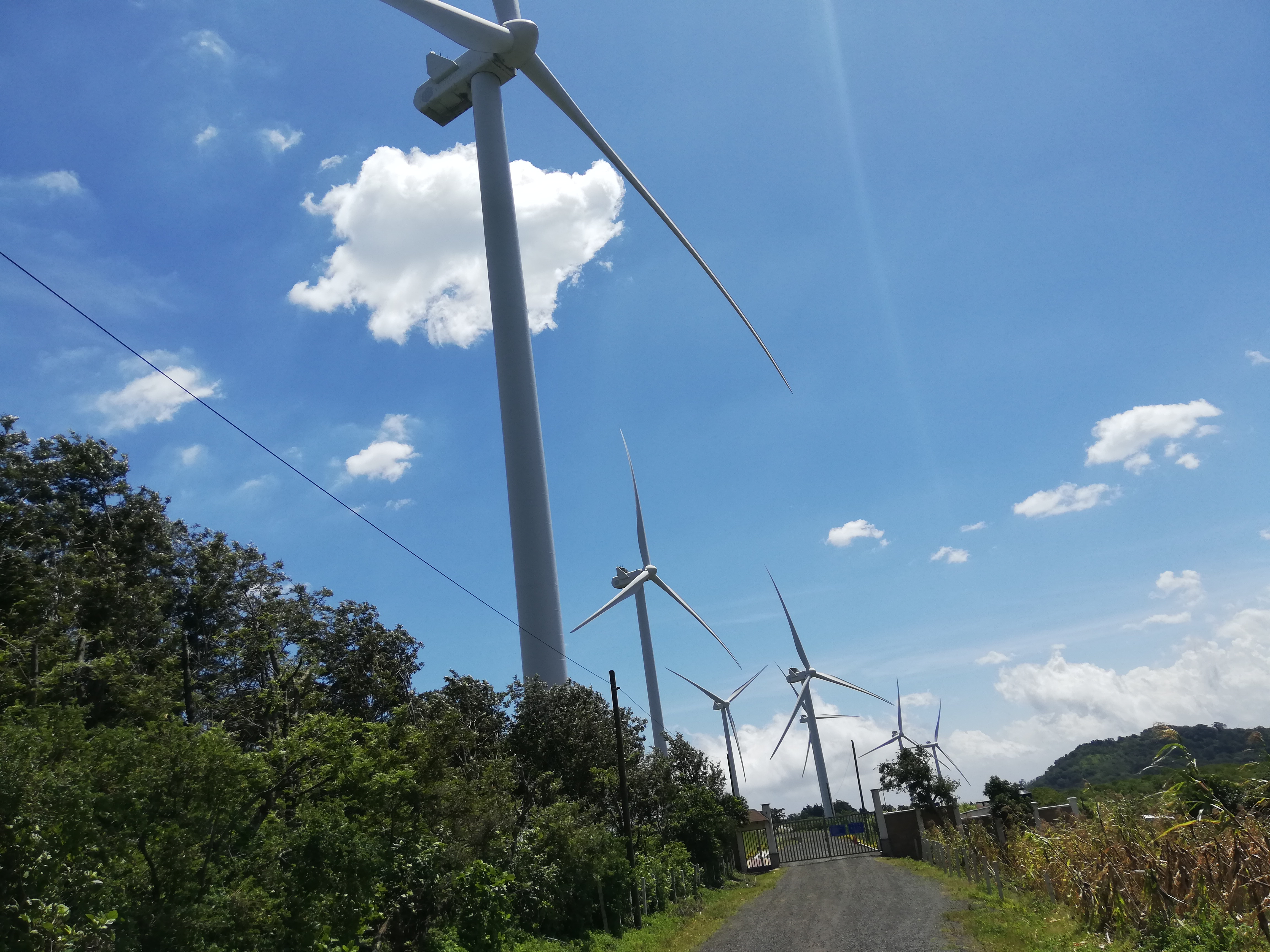 Parque eólico Viento Blanco, San Vicente Pacaya